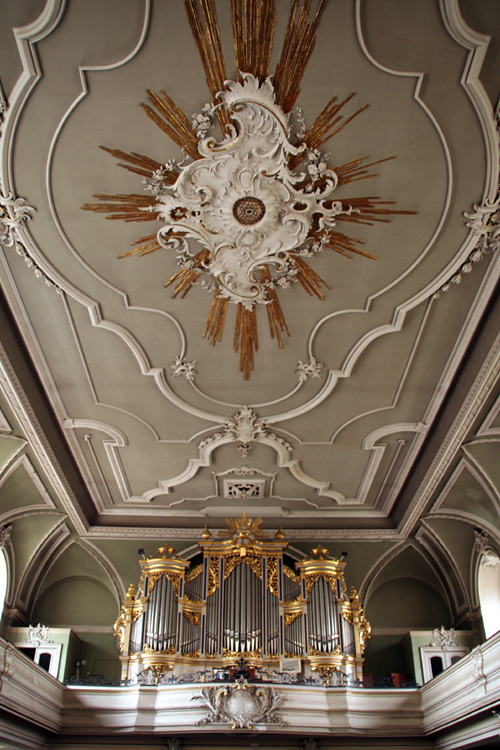 Berlin, Sophienkirche, interior with organ